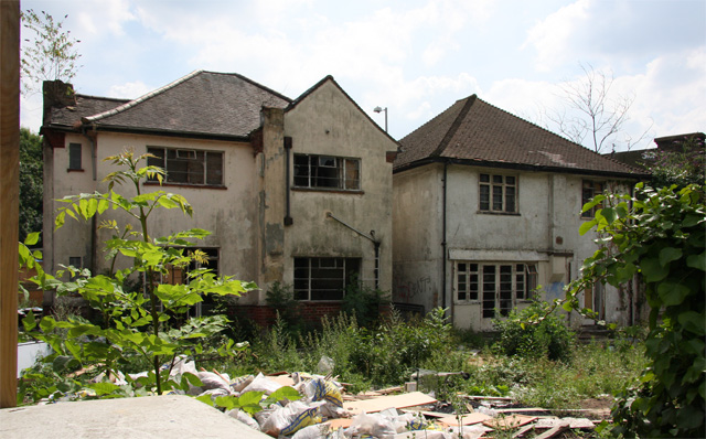 Abandoned Houses Two houses that have been left to decay and the bulldozers along the North Circular Road in the vicinity of Brent Cross. This time the view is from the rear. Anywhere else these would be desirable properties.